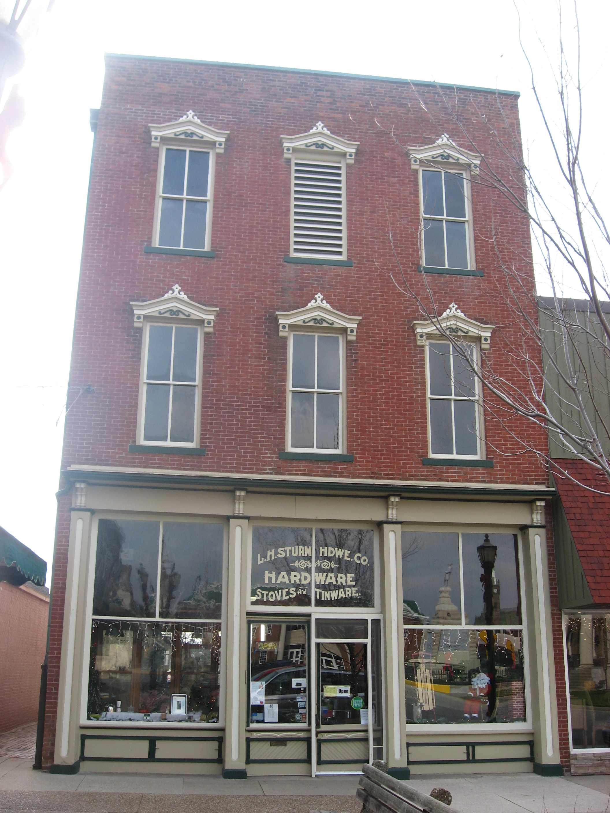 Front of the Louis H. Sturm Hardware Store, located at 516 Main Street on the public square in Jasper, Indiana, United States. Built in 1886, it is listed on the National Register of Historic Places.